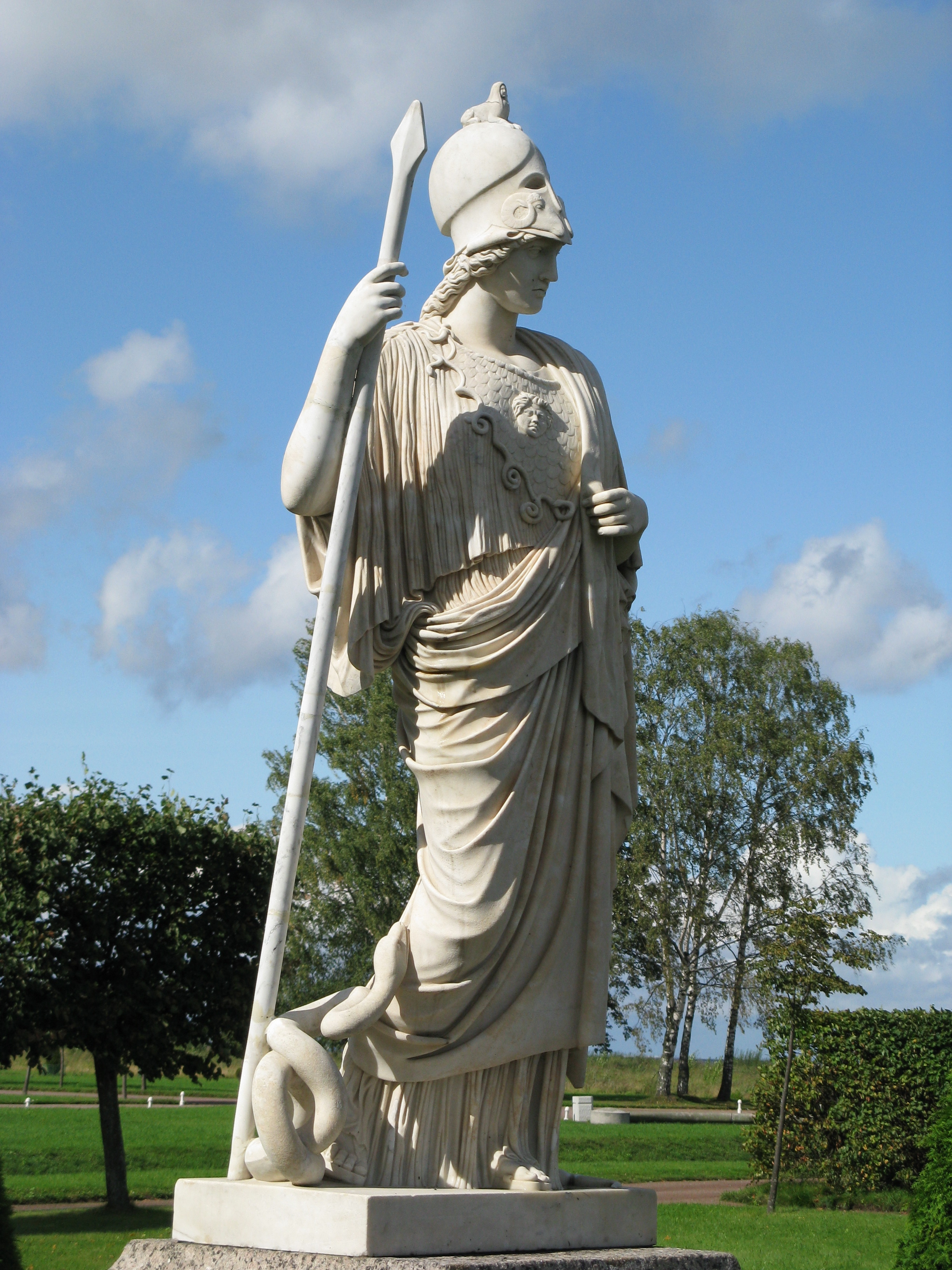 Athena at Lower Gardens of Peterhof